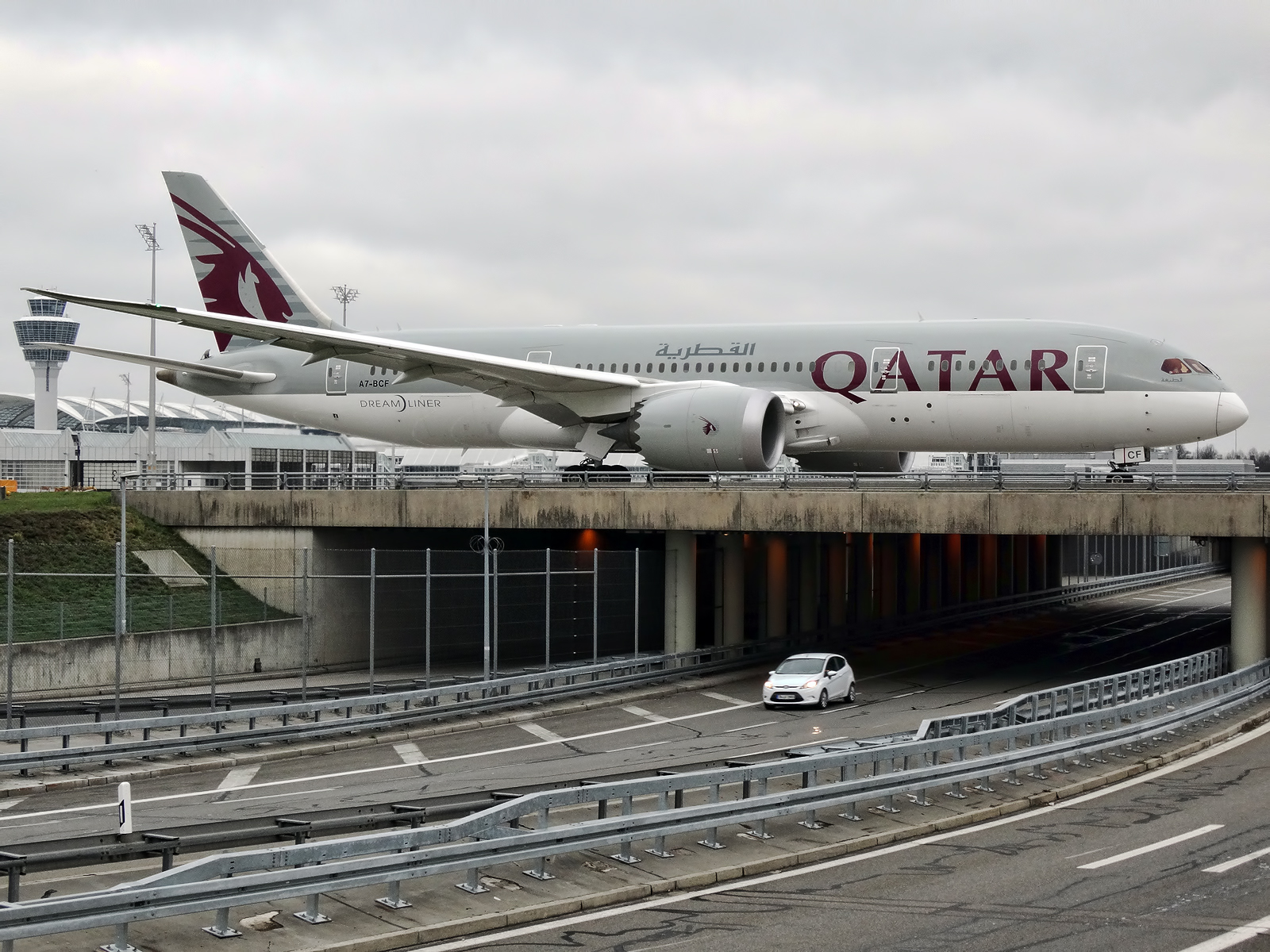 Boeing 787-8 Dreamliner Qatar Airways A7-BCF at Munich Airport